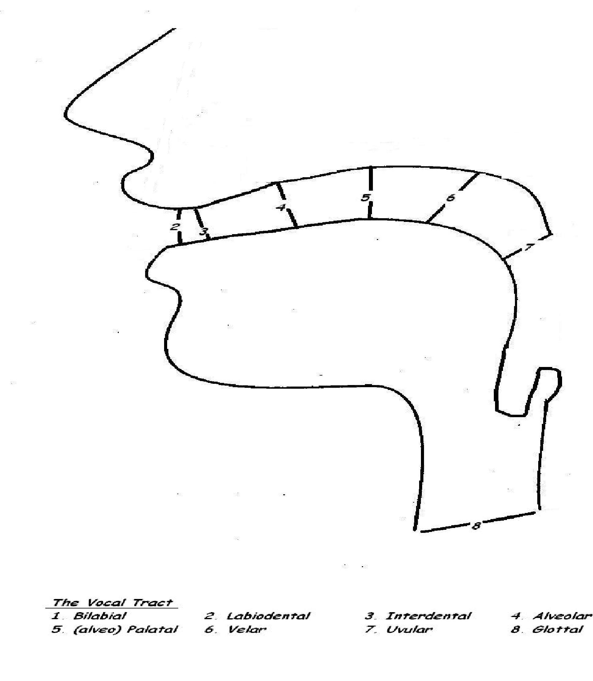 location of phonemes